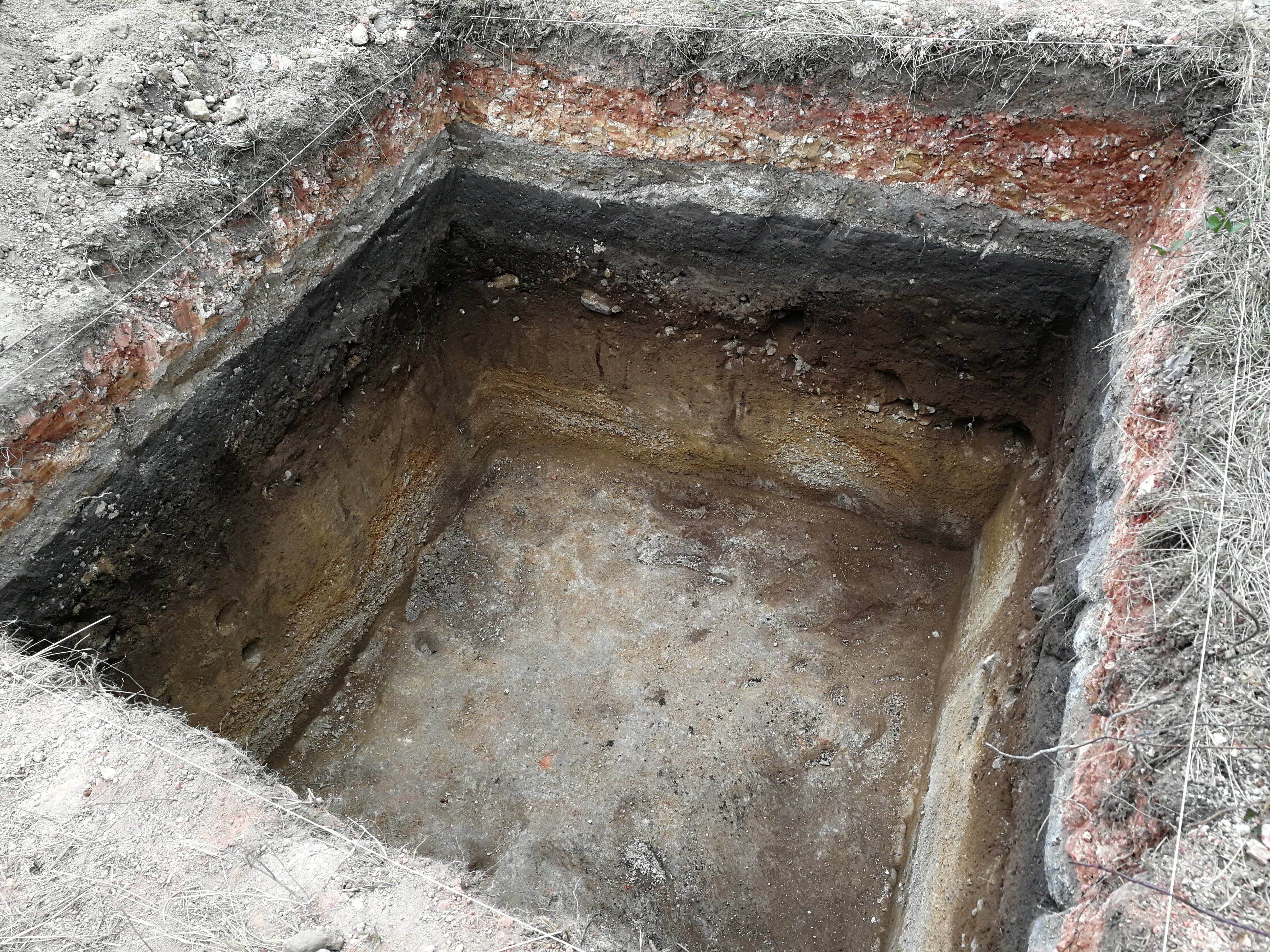 Excavation in the Paleolithic archaeological site of Gándaras de Budiño, where some tools were found, dating back around 300,000 years.